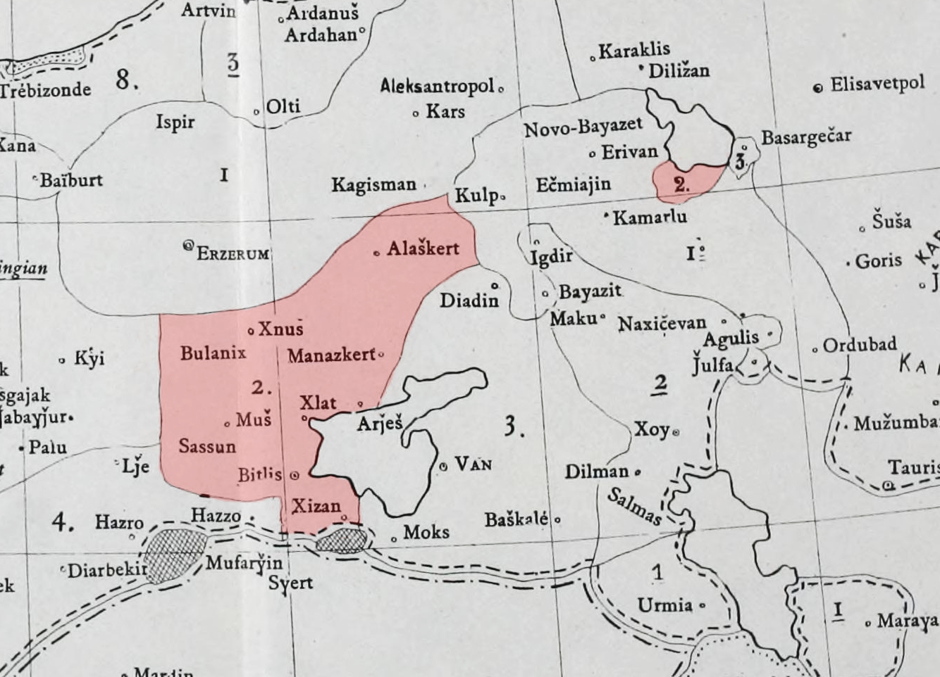 The spread of the Mush dialect according to Hrachia Adjarian, Classification des dialectes arméniens, 1909, Paris